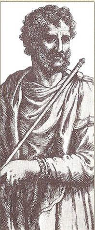 Obizzo II d'Este